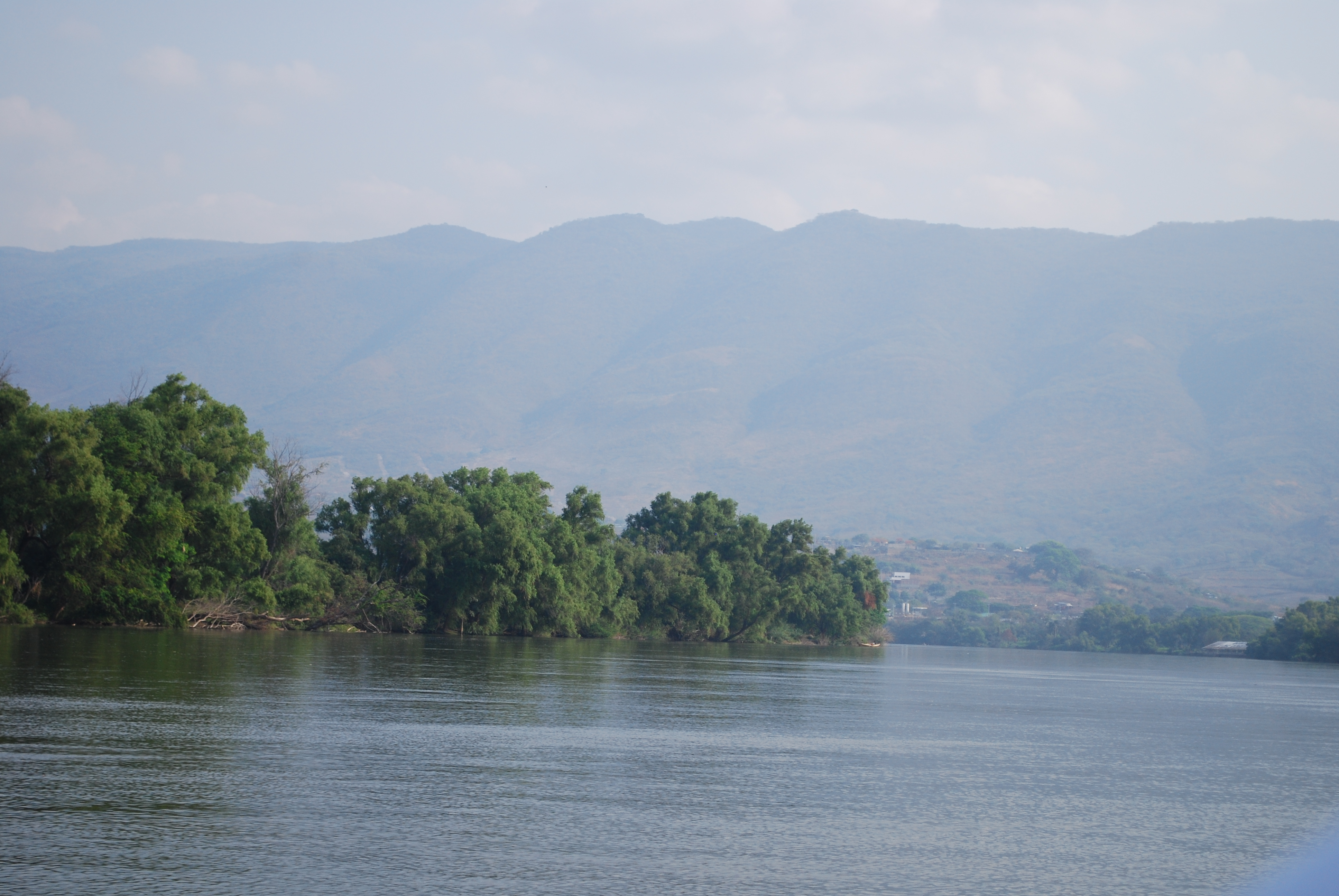 Grijalva River near Chiapa de Corzo, Chiapas, Mexico